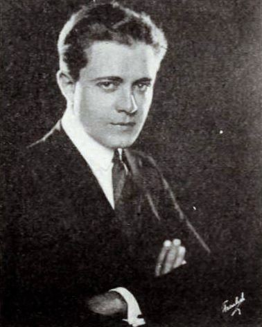 Actor Niles Welch, on page 43 of the December 17, 1921 Exhibitors Herald.